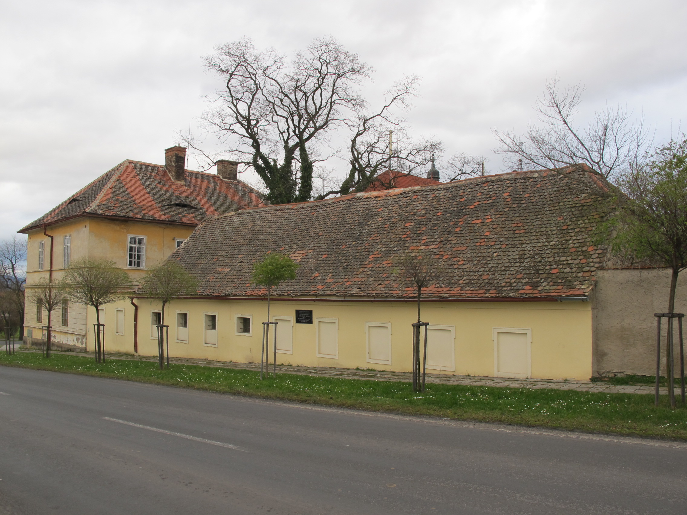 The old school in Cítoliby (Czech republic)